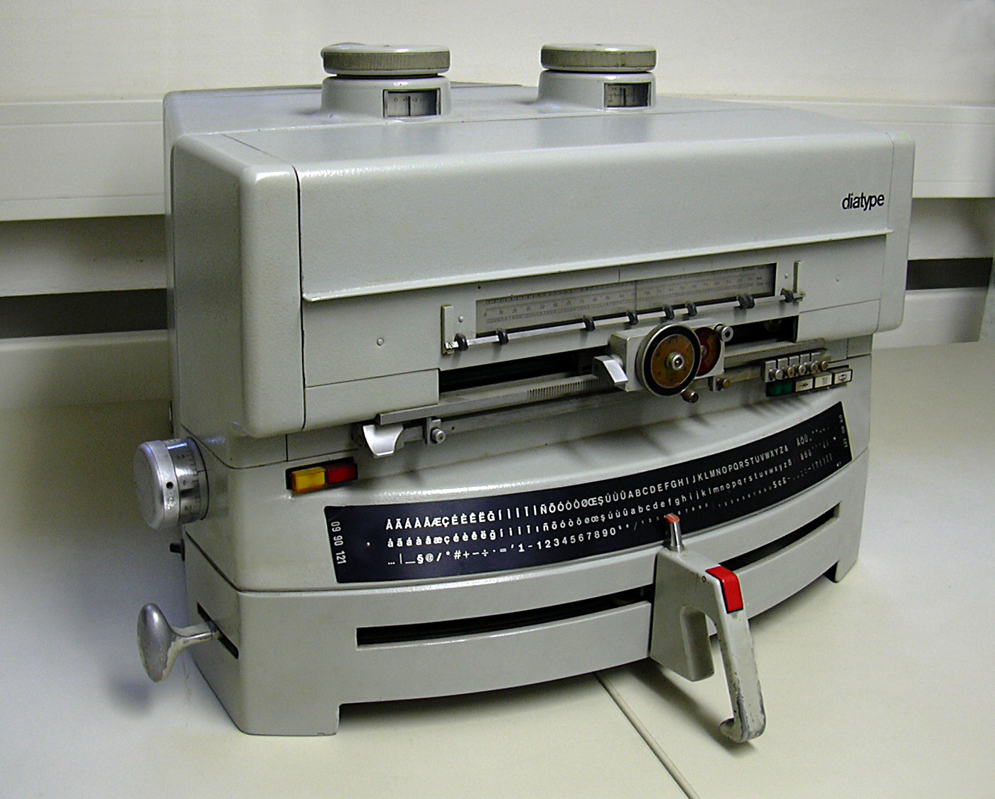 diatype photographic typesetting machine by H. Berthold AG